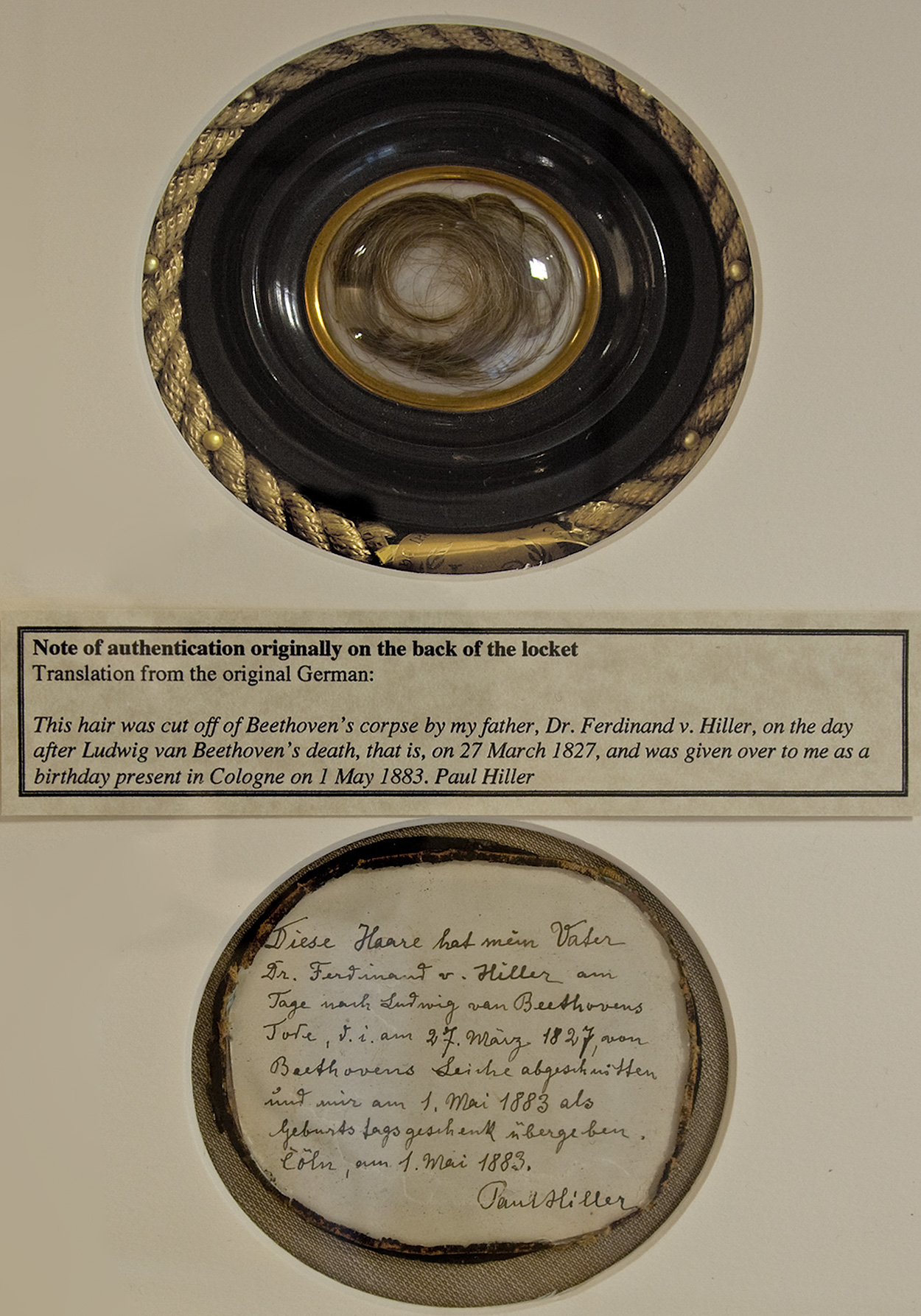 The Guevara Lock is a cut of Beethoven's hair taken after his death in 1827. It is now part of the collection of the Ira F. Brilliant Center for Beethoven Studies.